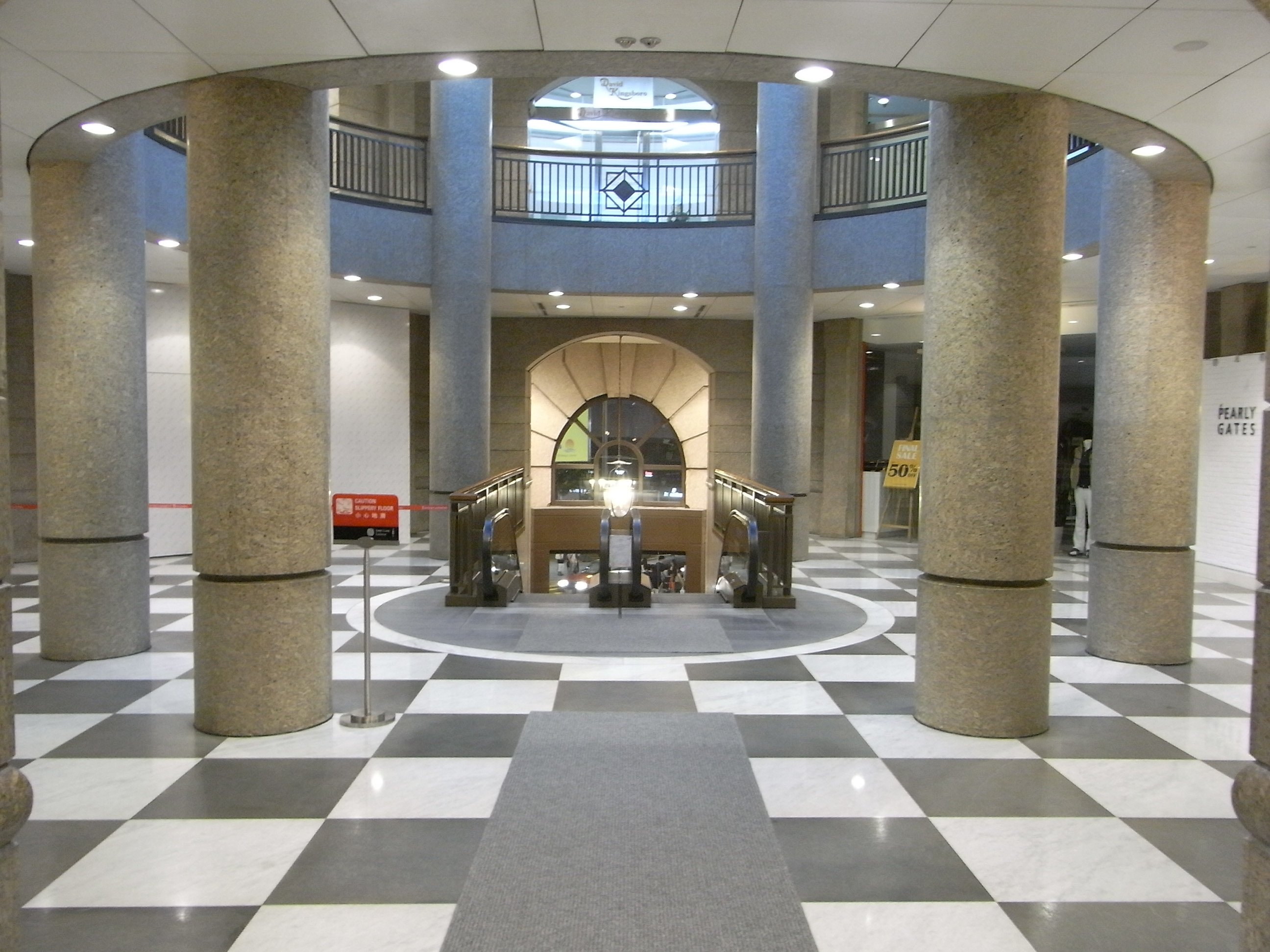 中環 地板